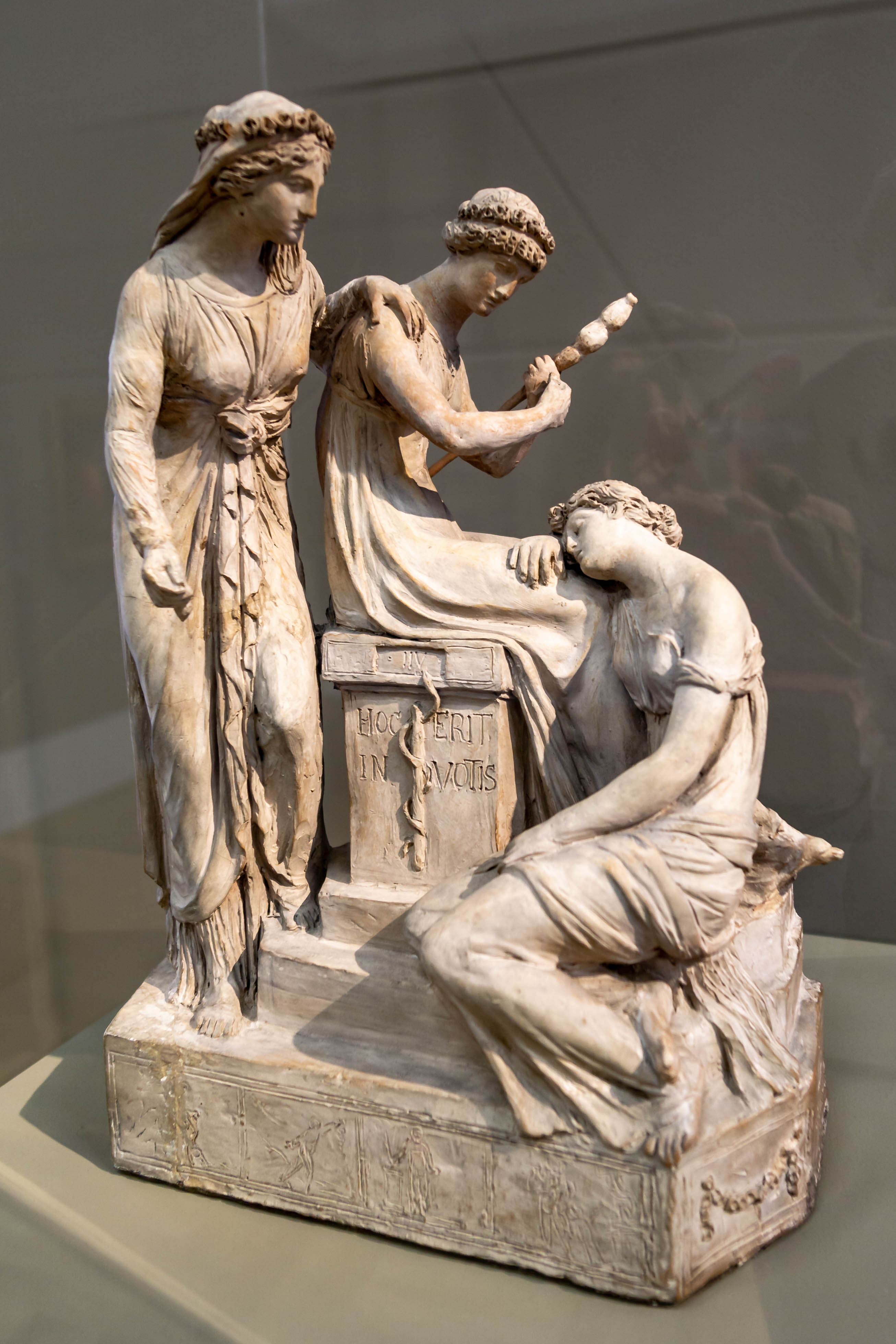 The Three Fates